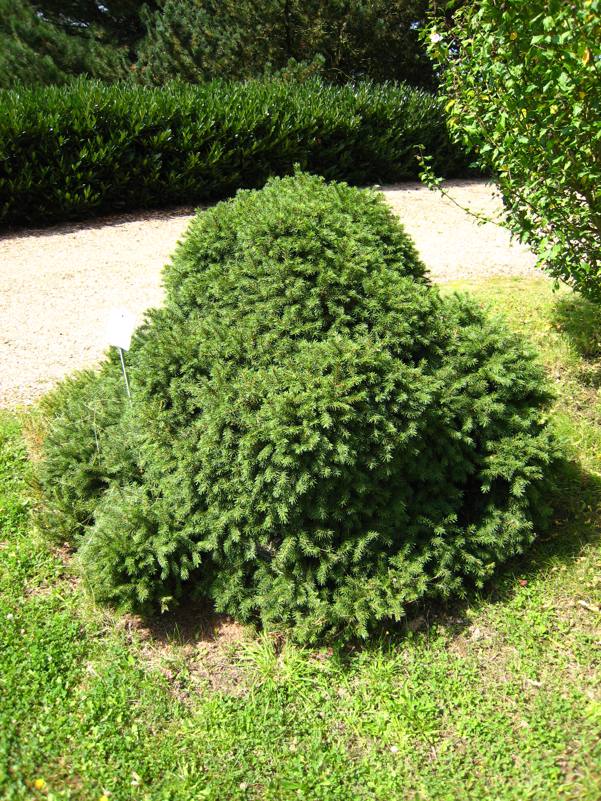 Picea abies 'nana' in the Arboretum de Chèvreloup in Rocquencourt